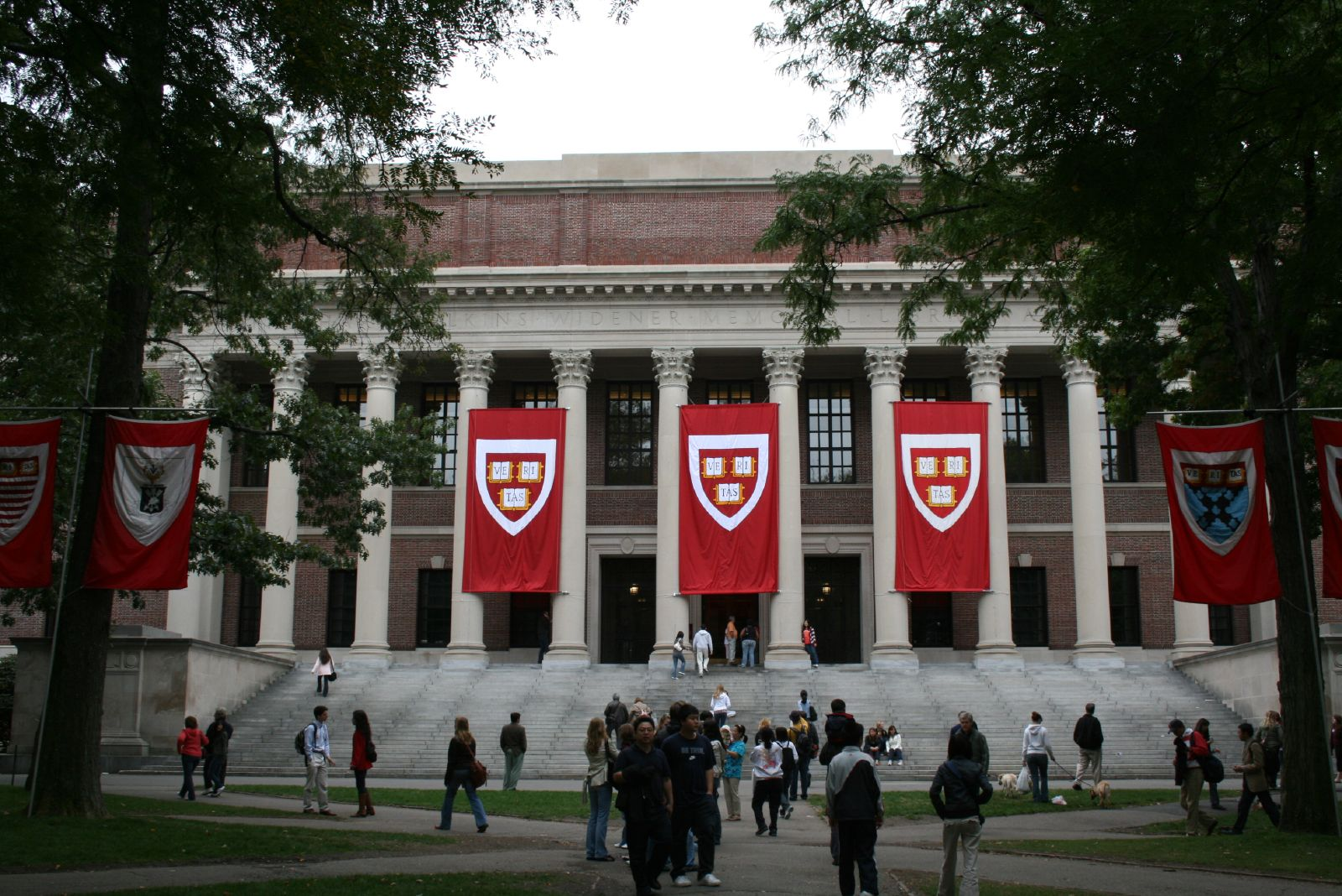 Widener Library, Harvard University(in full dress for the inauguration of the new university president - Drew Gilpin Faust)